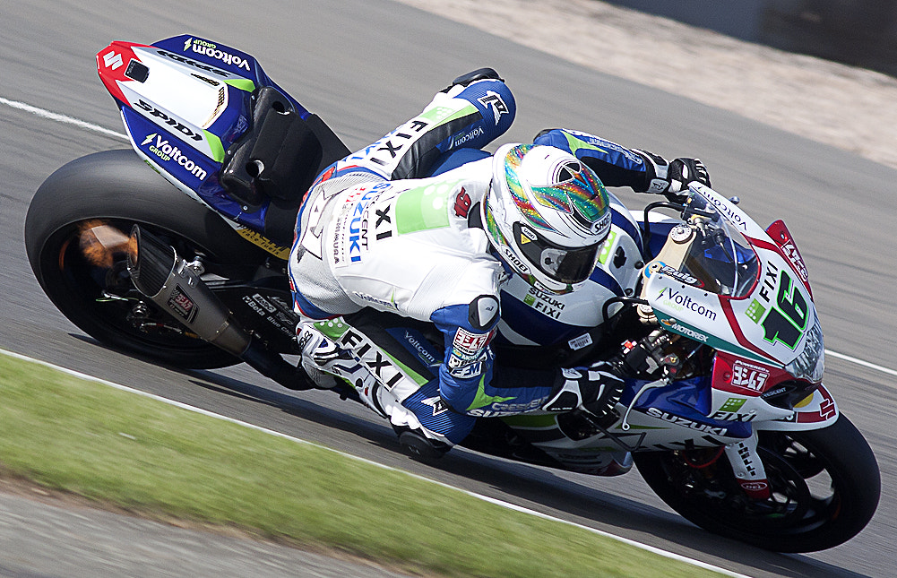 500px provided description: Cluzel's flame spitting Suzuki [#Donington Park ,#WSBK ,#Jules Cluzel]